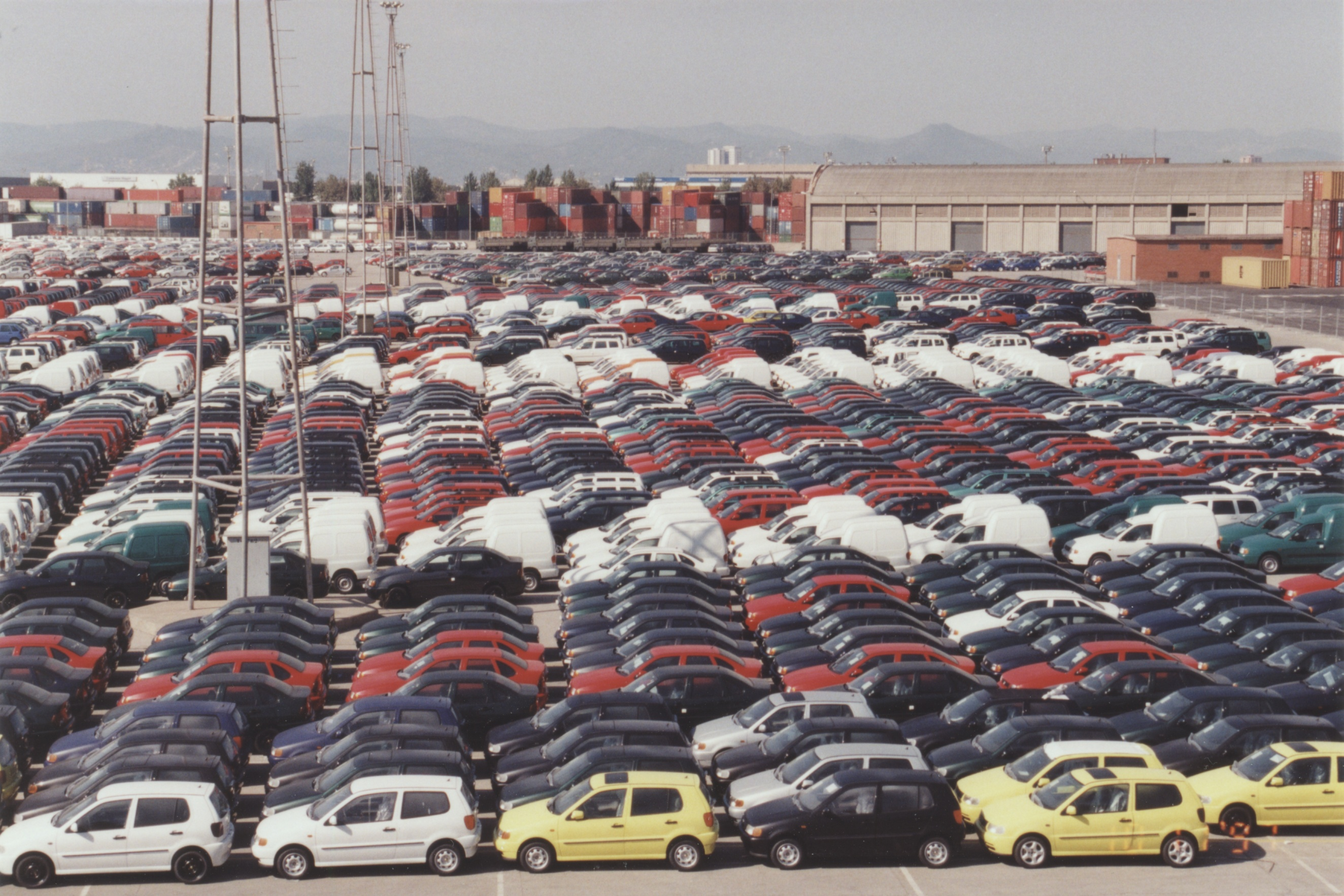 Cars (including Volkswagens) parked on the pier in Barcelona.